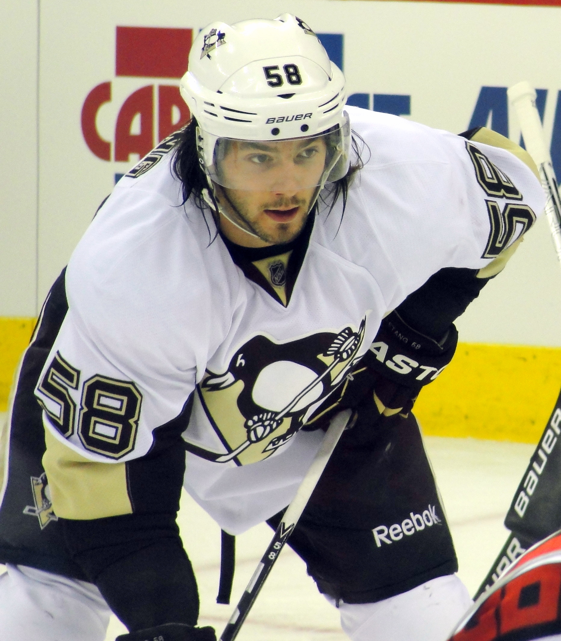 Pittsburgh Penguins defenseman Kris Letang awaits the faceoff during a November 12, 2011 game against the Carolina Hurricanes at RBC Center in Raleigh, NC.